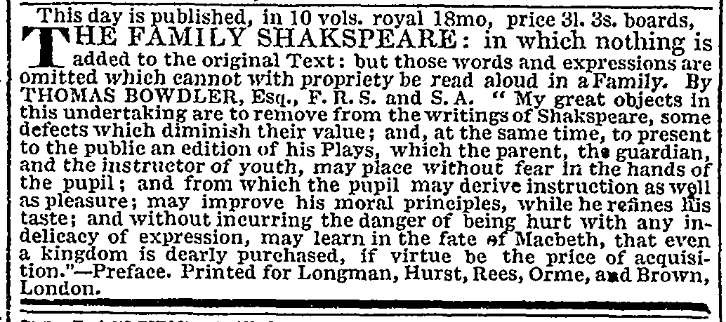 Advertisement for Thomas Bowdler's edition of Shakespeare plays, printed in and scanned from The Times, 10 August 1819, p. 4.